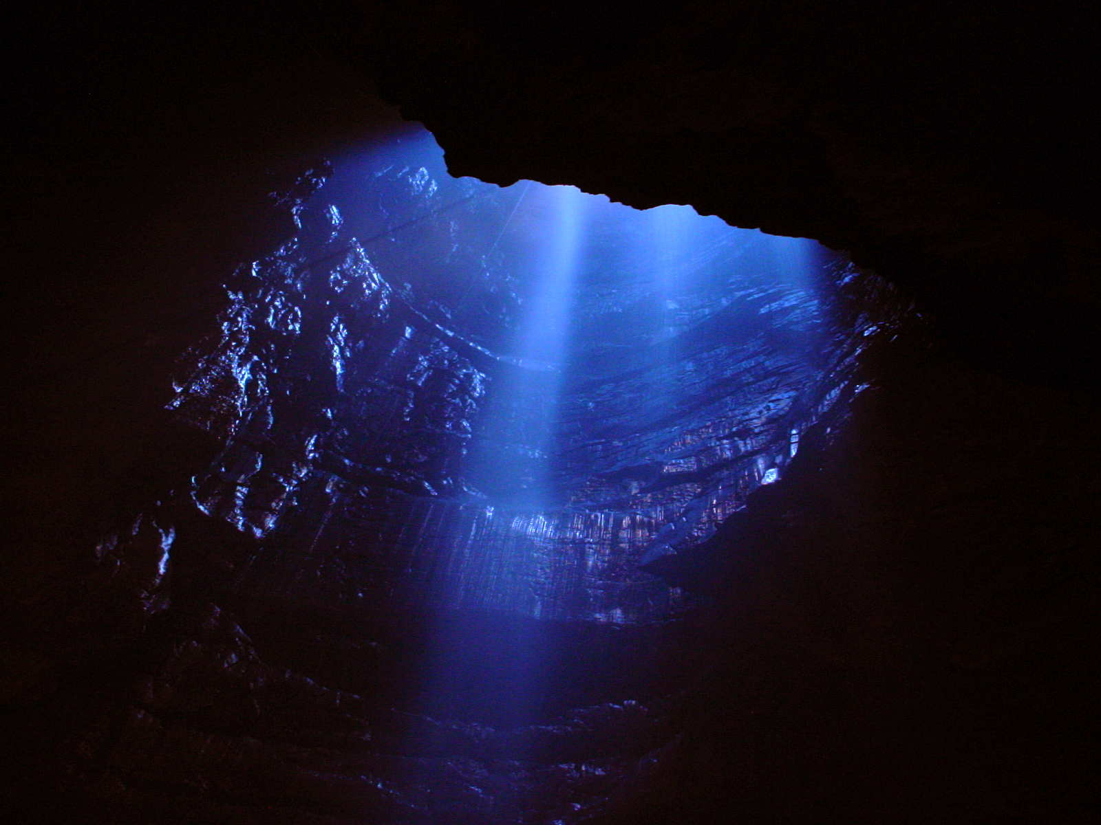 Author: Mark S Jobling